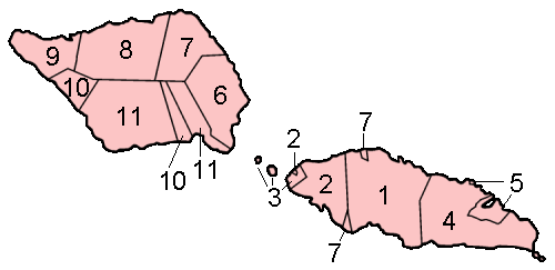 original image:Samoa_districts_numbered.png by user:Golbez modification (numbering) by user:Ratzer1